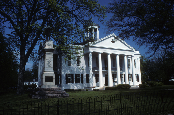 Hinds County courthouse in Raymond, Mississippi, United States